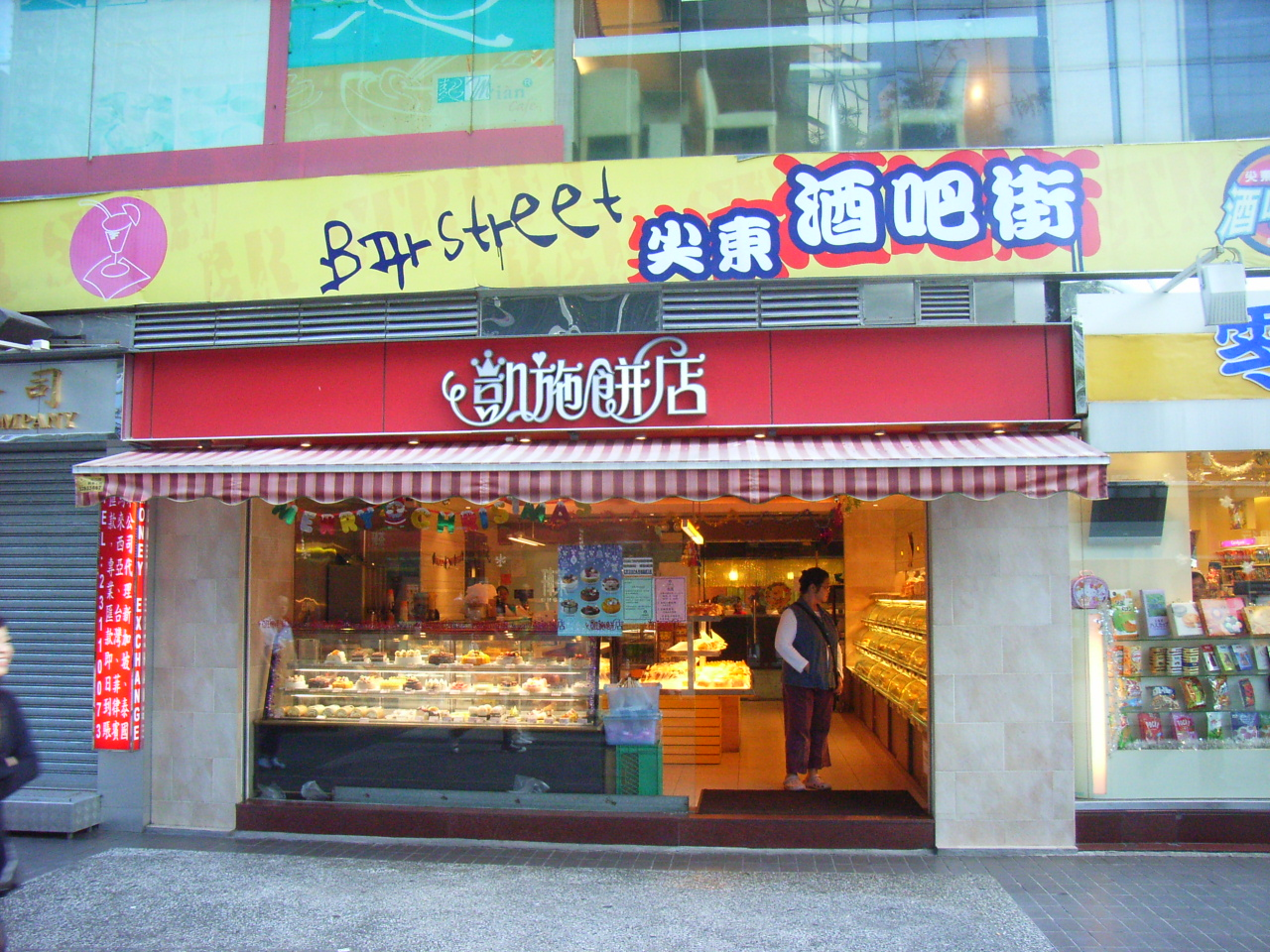 尖東